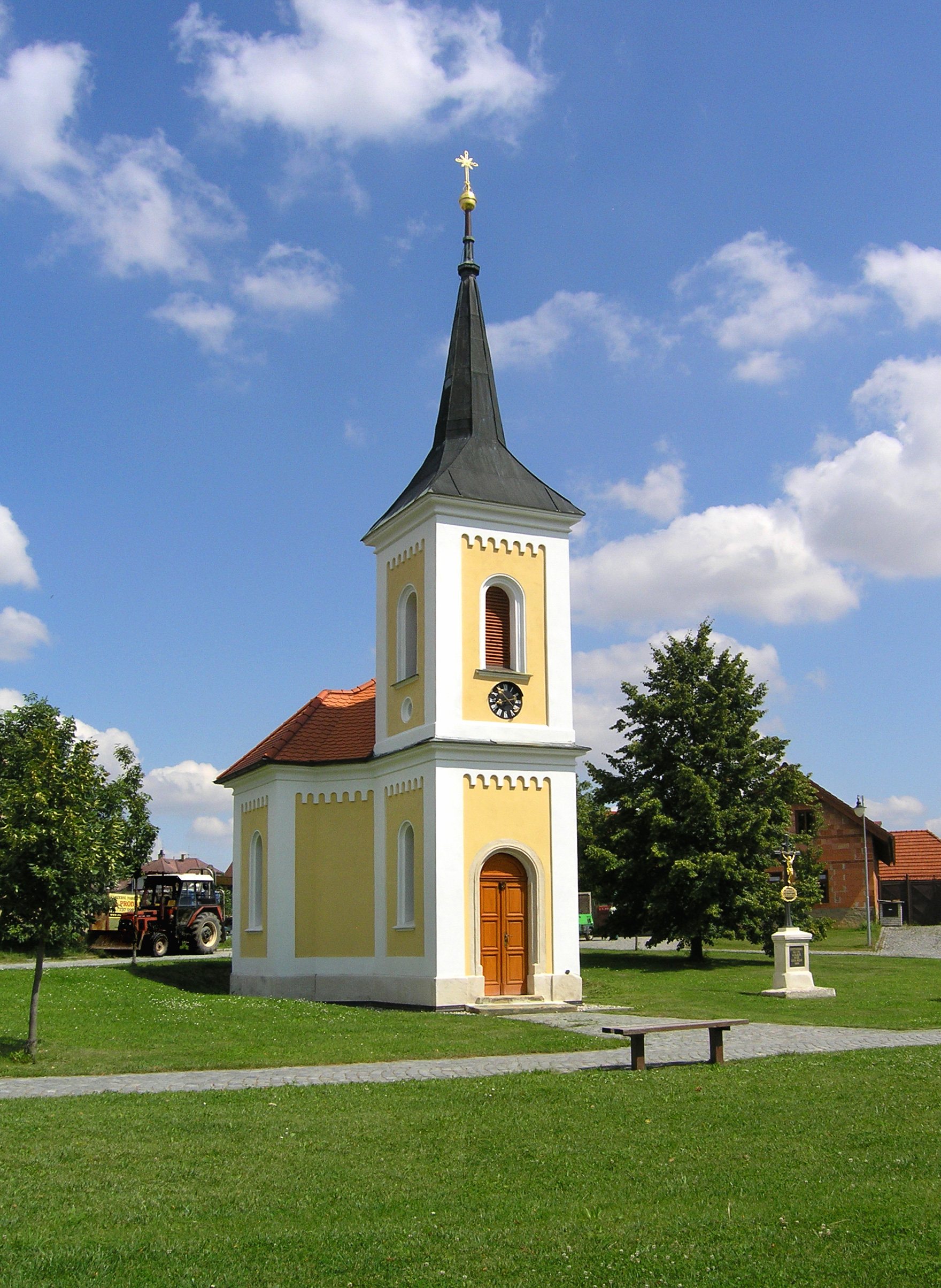 Chapel in Kyšice, Czech Republic